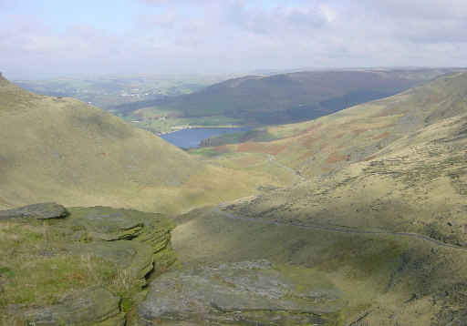 Dovestones Reservoir from Chew Hurdles. Looking north-west from Chew Hurdles down the valley of the Chew Brook towards Dovestones Reservoir, near Greenfield, in Greater Manchester, England.